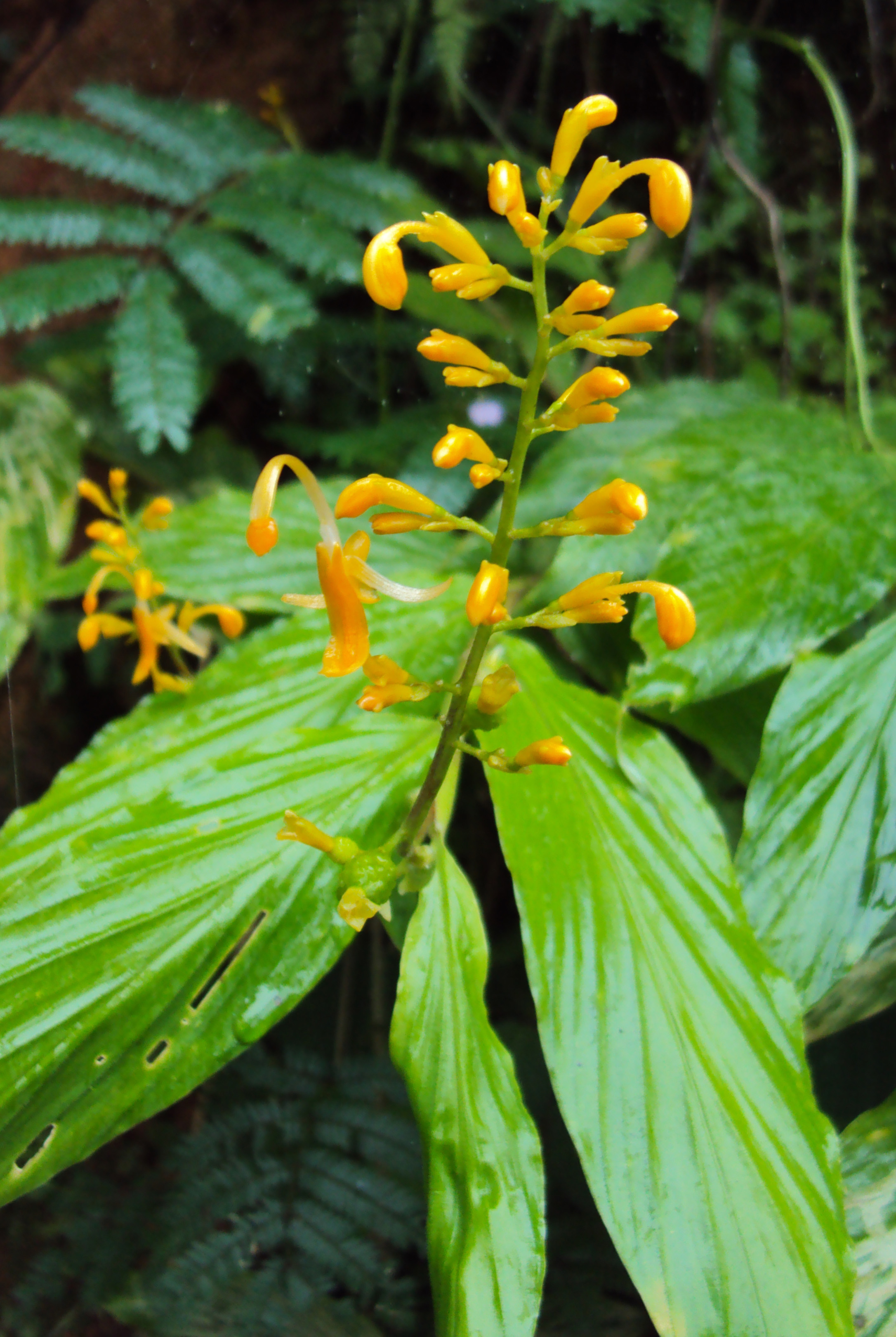 Globba sessiliflora